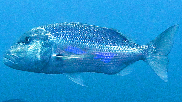 Dentex dentex at Area Marina Protetta di Portofino